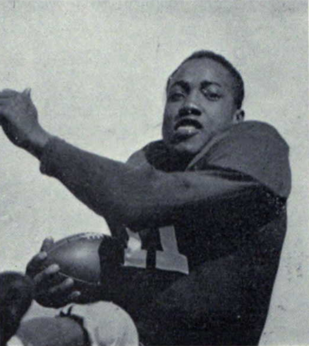 Photograph of University of Wisconsin athlete Ed Withers